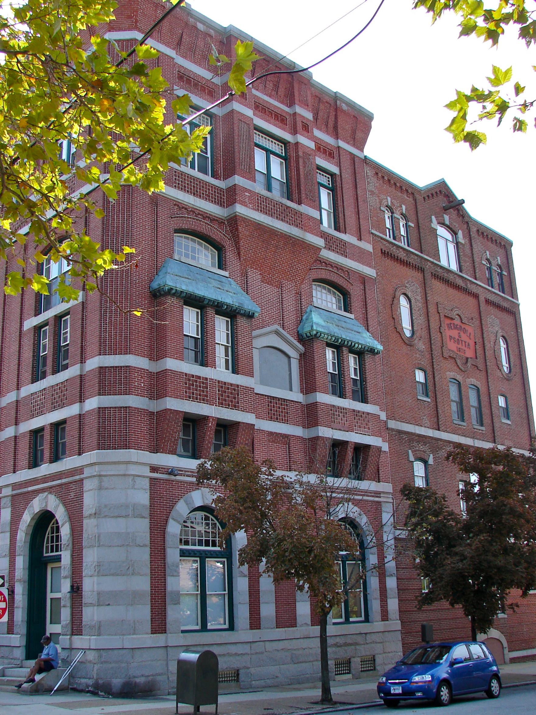 City Park Brewery in Philadelphia on the NRHP since July 18, 1980. Historic district is roughly bounded by Pennsylvania Ave., 28th, 30th, and Poplar Sts. in the Fairmount neighborhood of North Philly. Though the NRHP listing is as a district, it is my impression that this building is THE brewery (though the sign, hidden here by the tree, may be new or inaccurate).